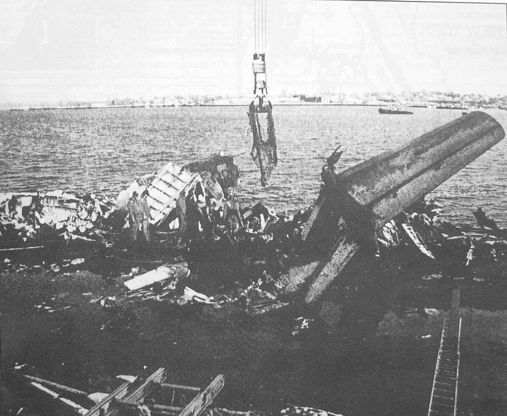 USAir Flight 405 crash, Laguardia 1992